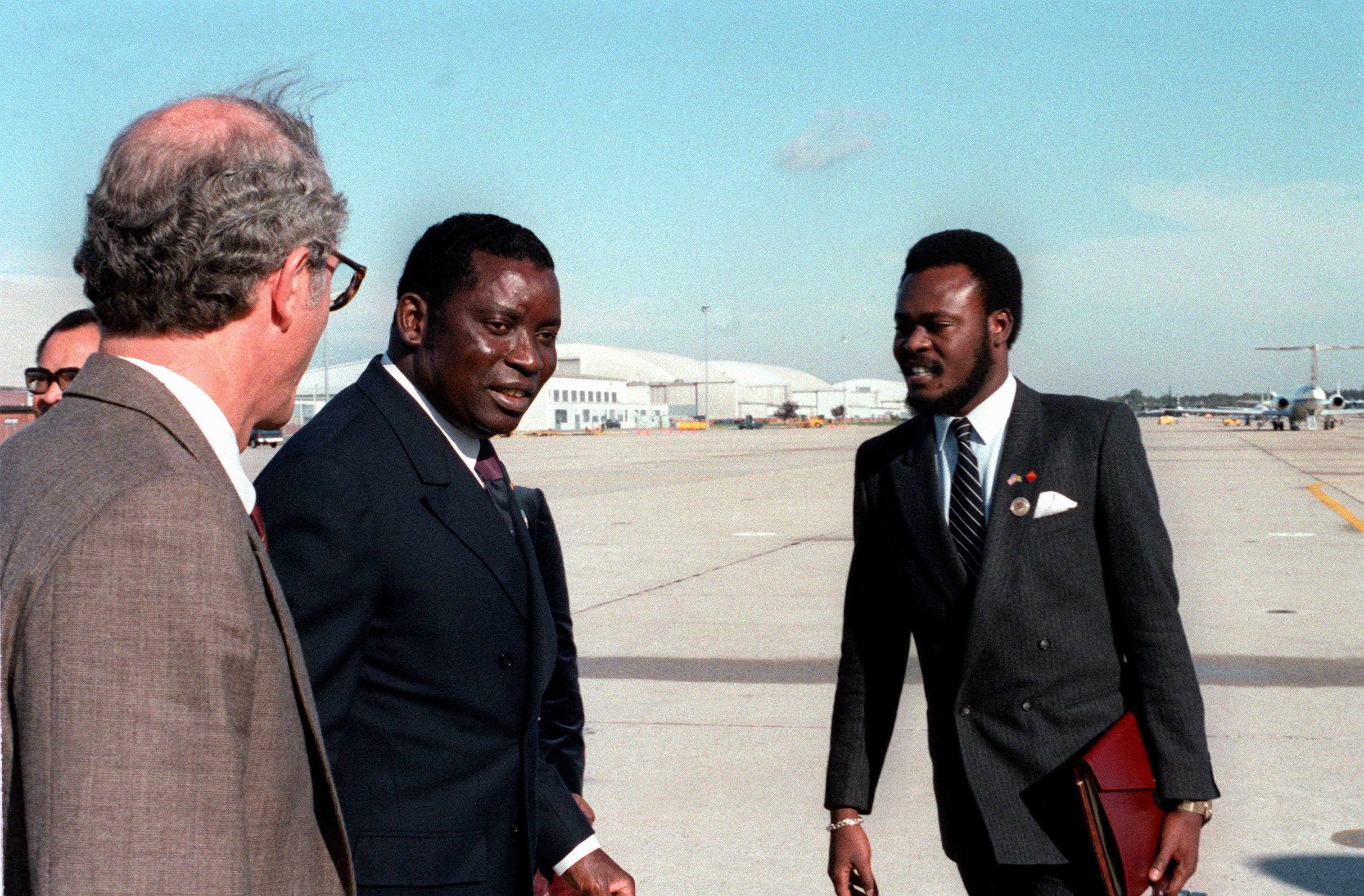 President Gnassingbe Eyadema of Togo departs after a state visit.